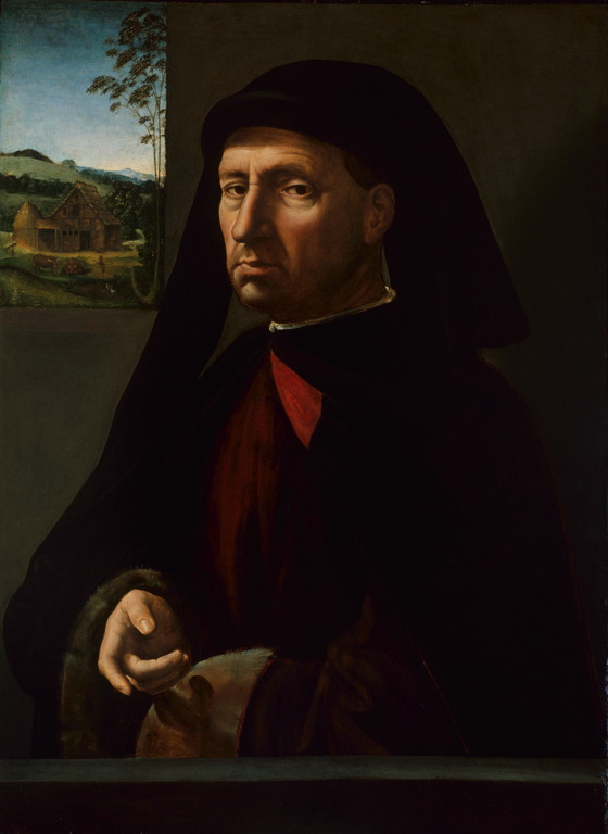 Portrait of a Gentleman